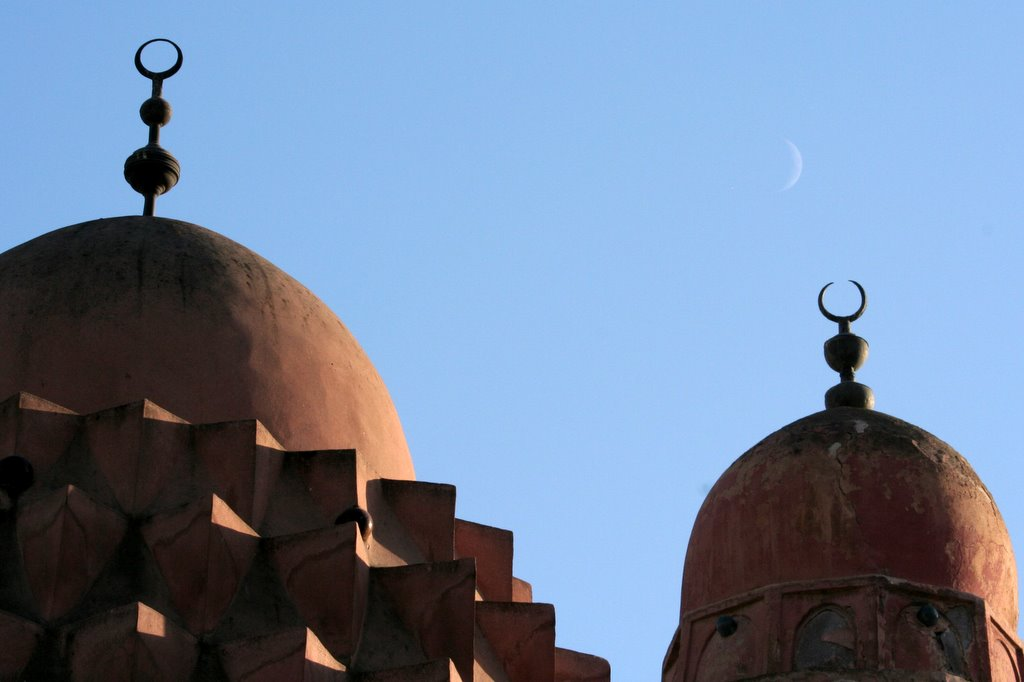 Damascus domes